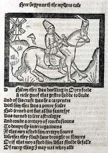 The Miller, one of the pilgrims in Chaucer's Canterbury Tales